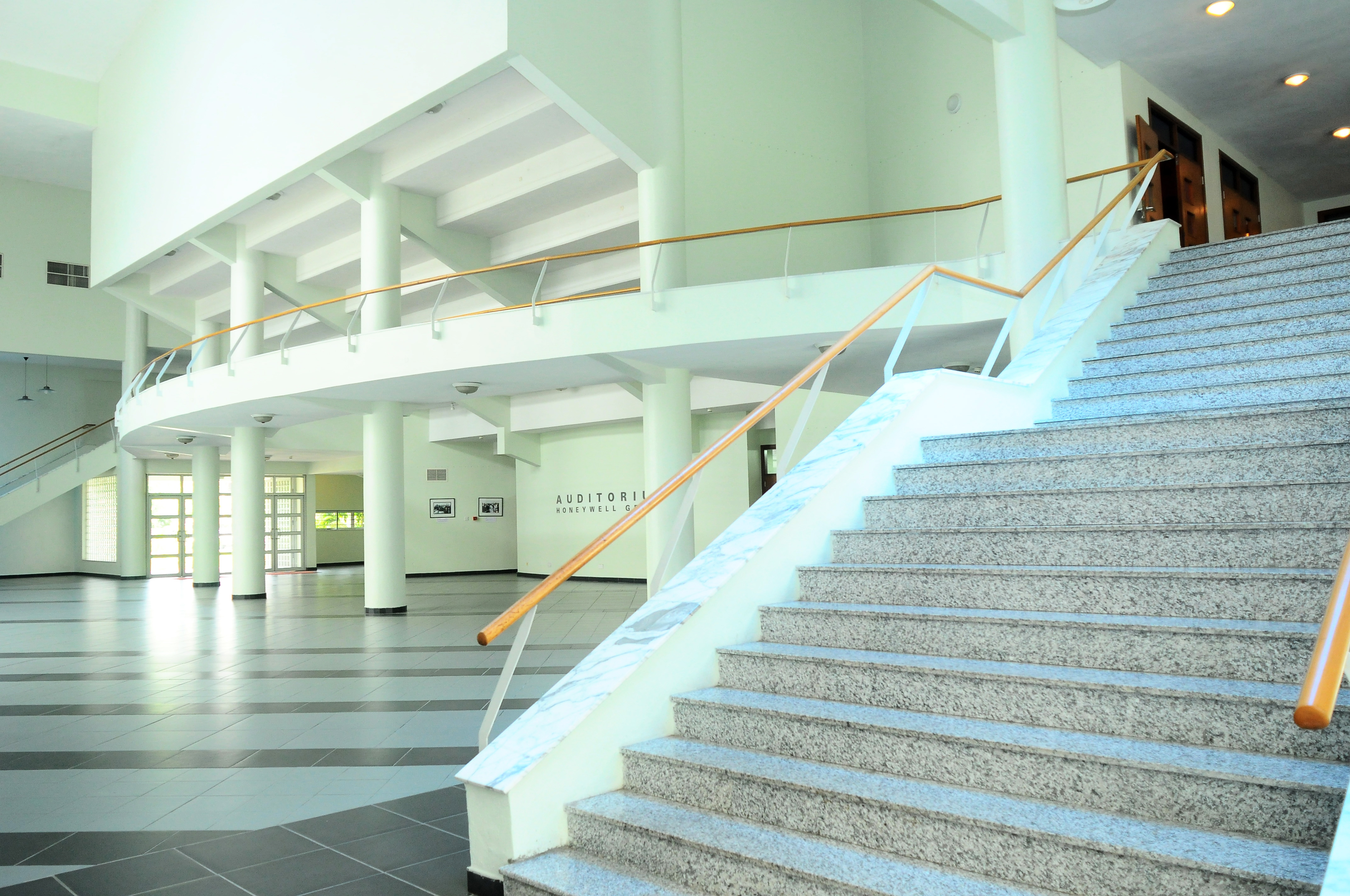 The Honeywell Auditorium can be accessed from this foyer